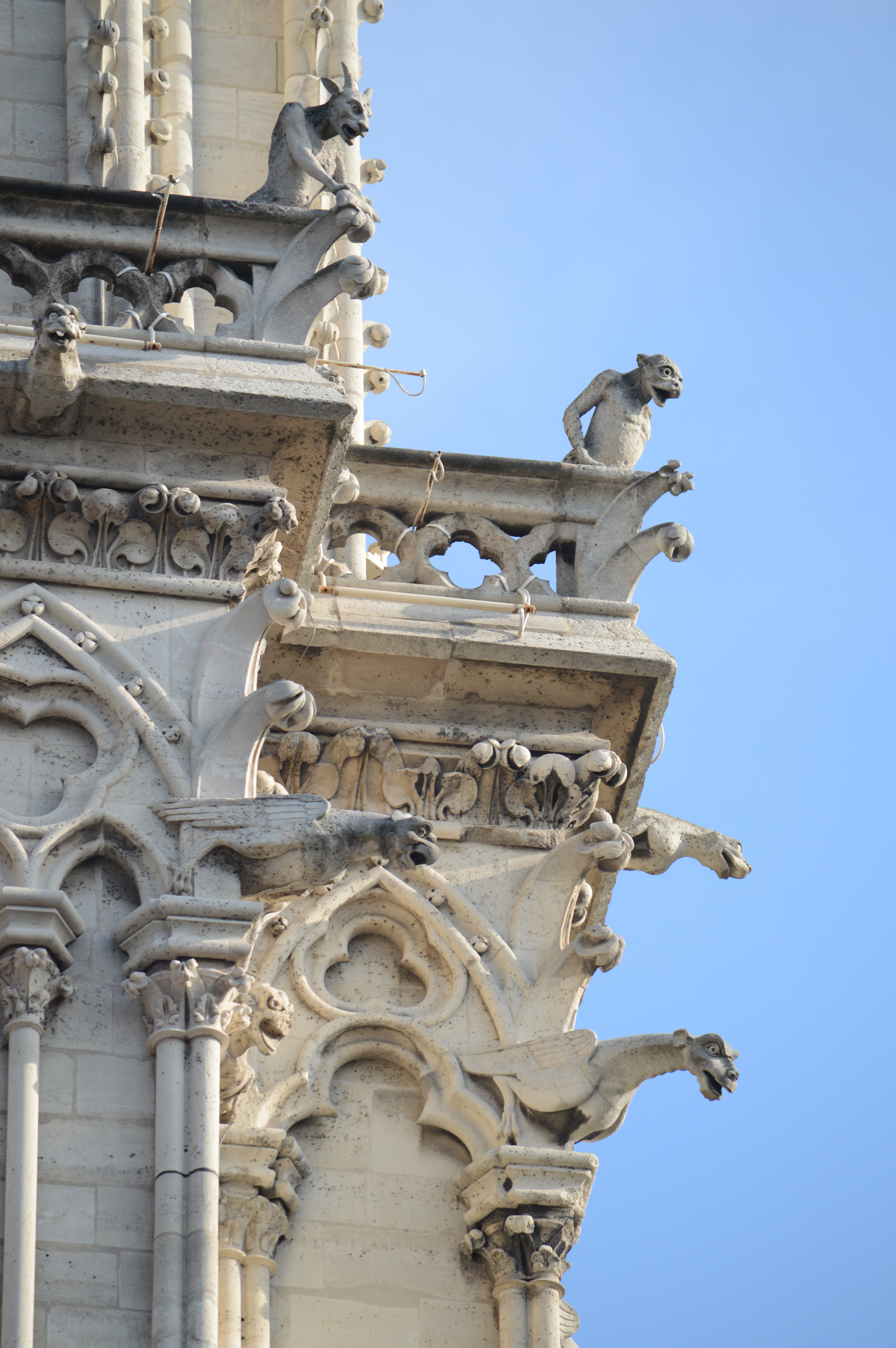 Gargoyles of Notre-dame